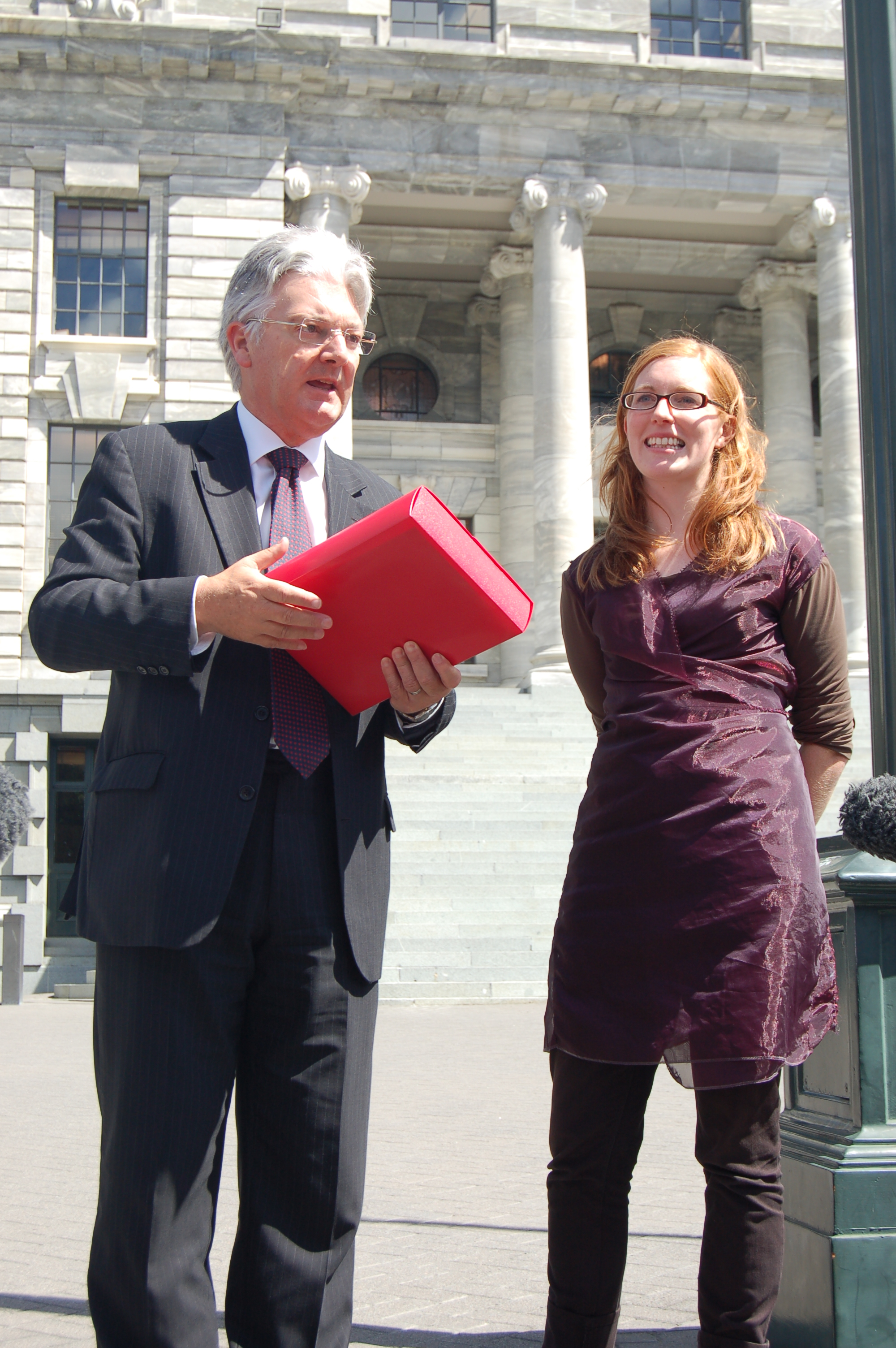 Protest at Parliament on 19 February 2009